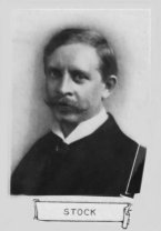 The image of Frederick Stock (1872-1842)